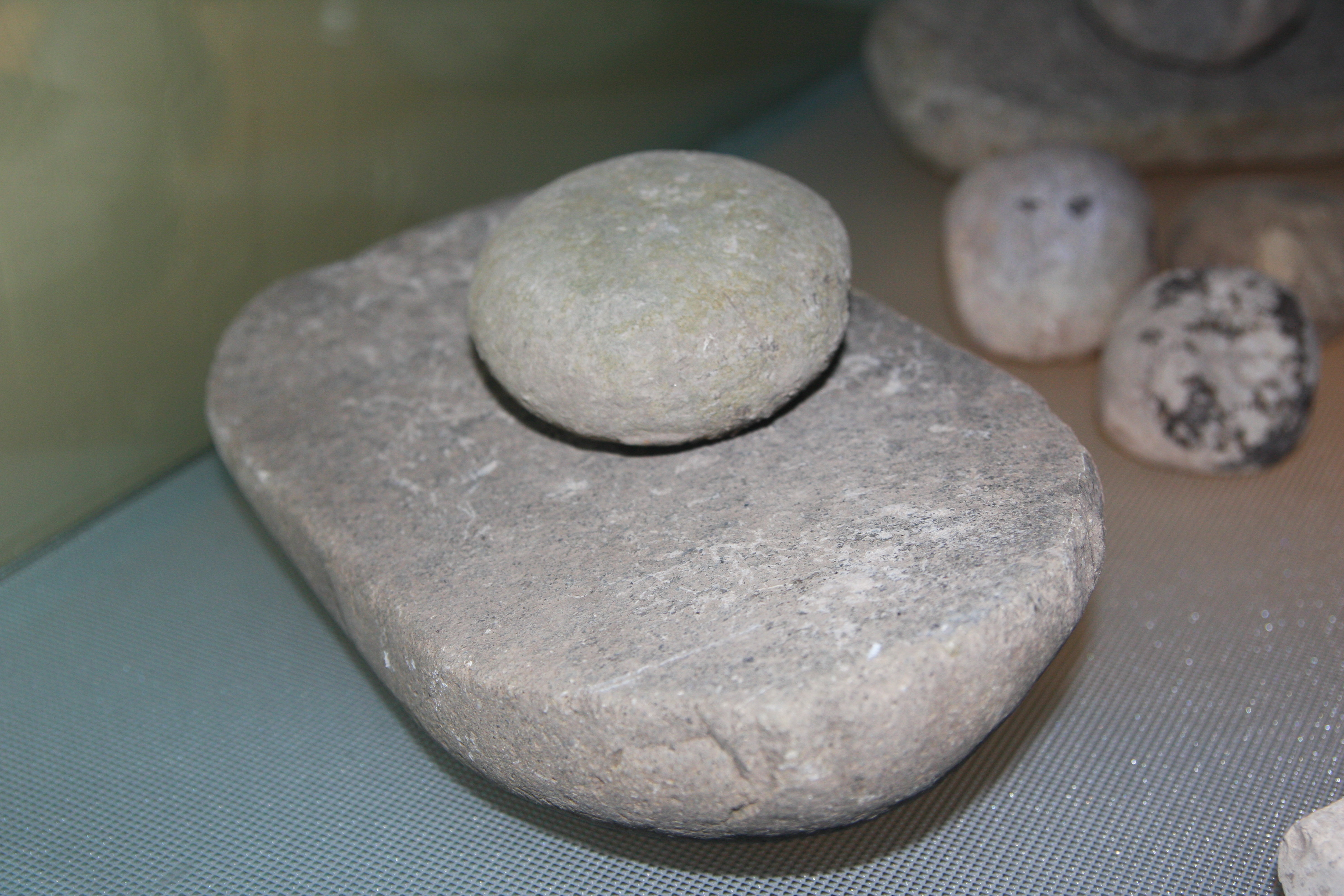 Cucuteni Stone mill